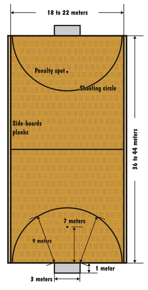 Summary Indoor field hockey field, image created by Laurent van Roy. Smaller version SVG Source